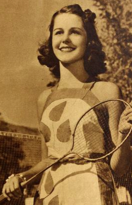 American actress Helen Parrish (1924-1959) from Modern Screen, 1940